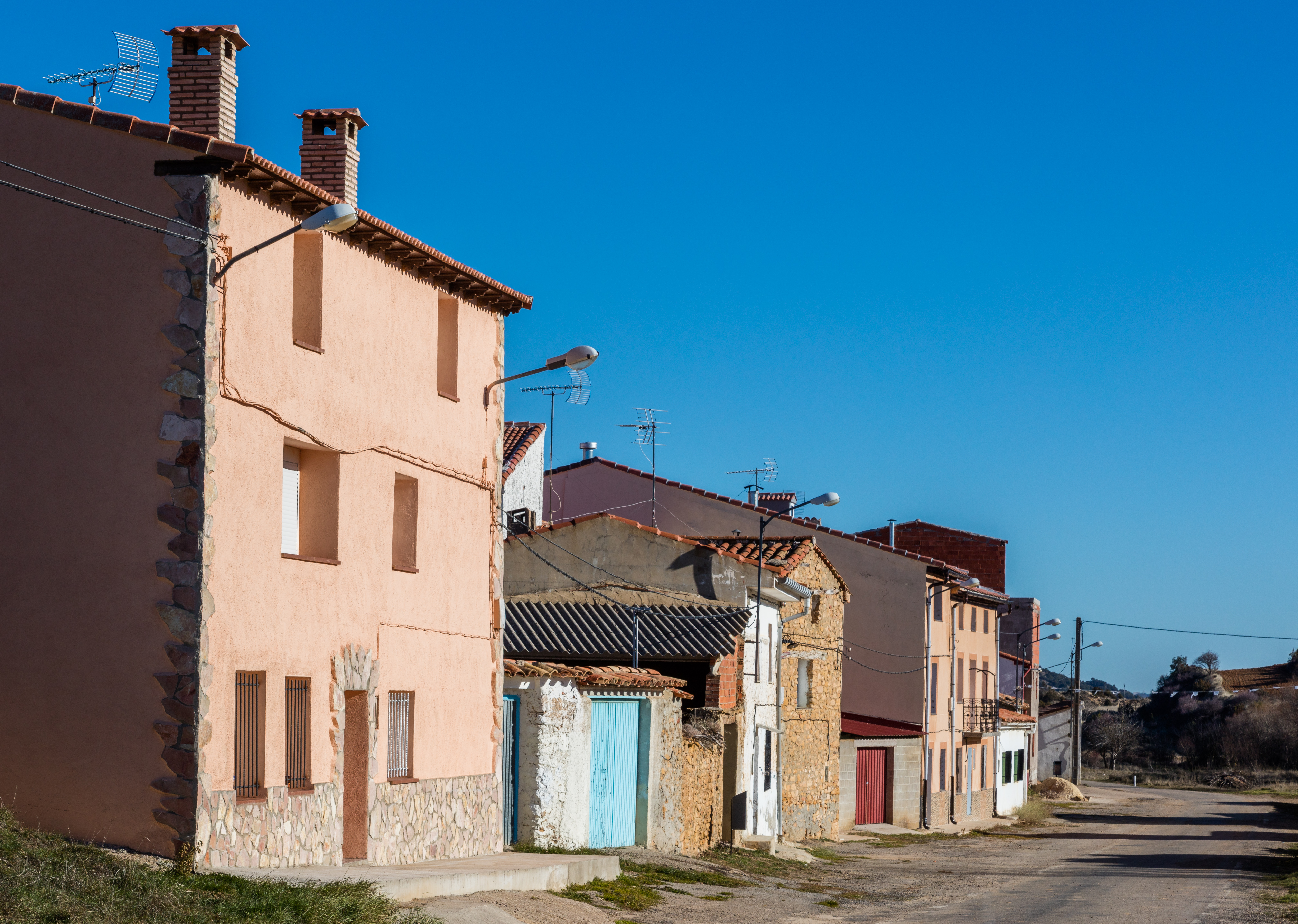 Allueva, Teruel, Spain